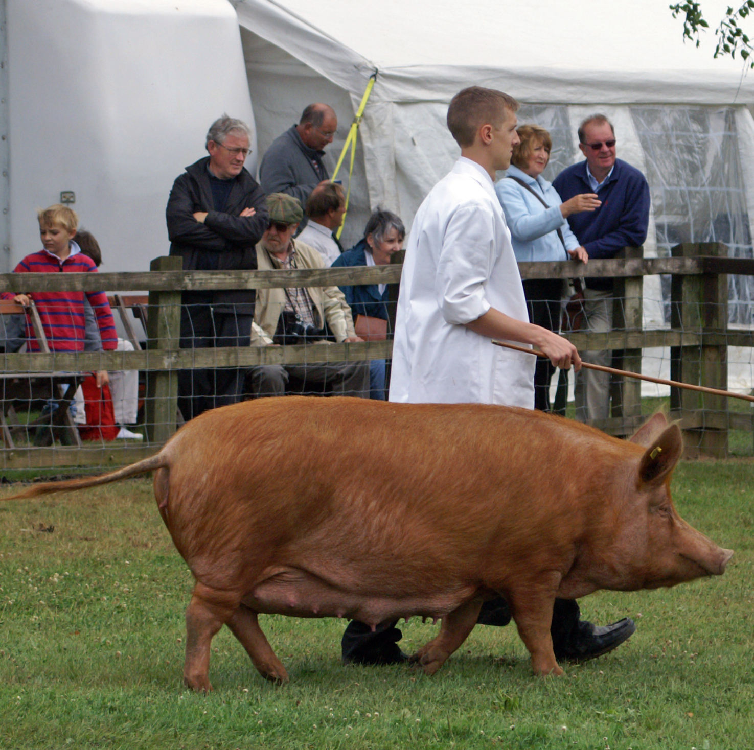 The Last Royal Show